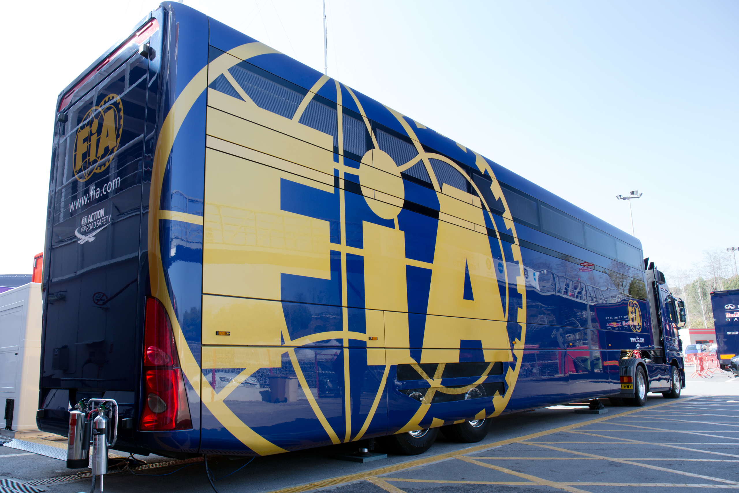 Formula One 2013 Catalonia test (19-22 February): FIA transporter